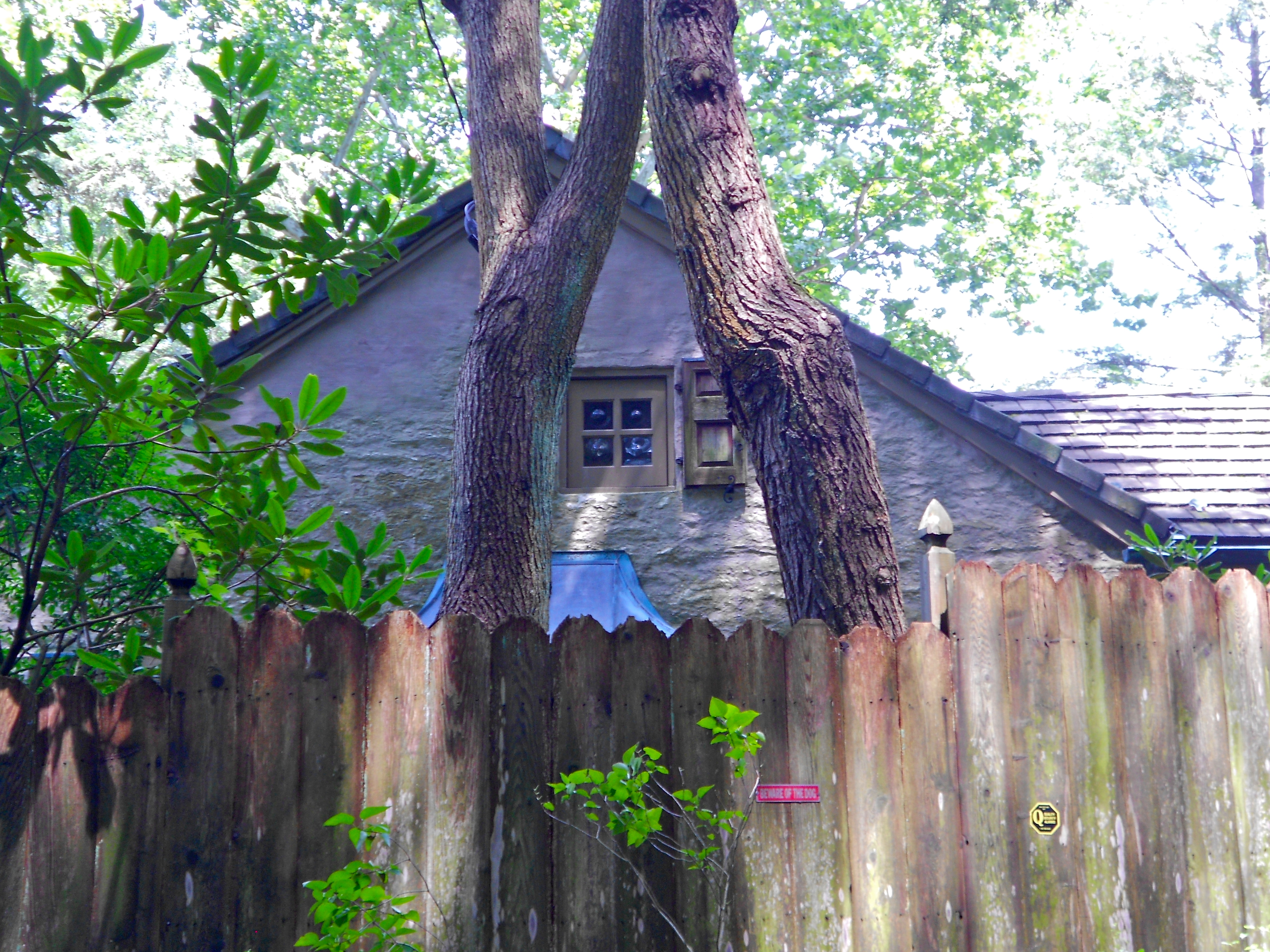 Spruce Grove School on the NRHP since September 16, 1985, on Brandywine Creek Road (cross street Hilltop View Road), in Newlin Township, Chester County, Pennsylvania. Converted into a house in the 1920s, extreme privacy measures here.